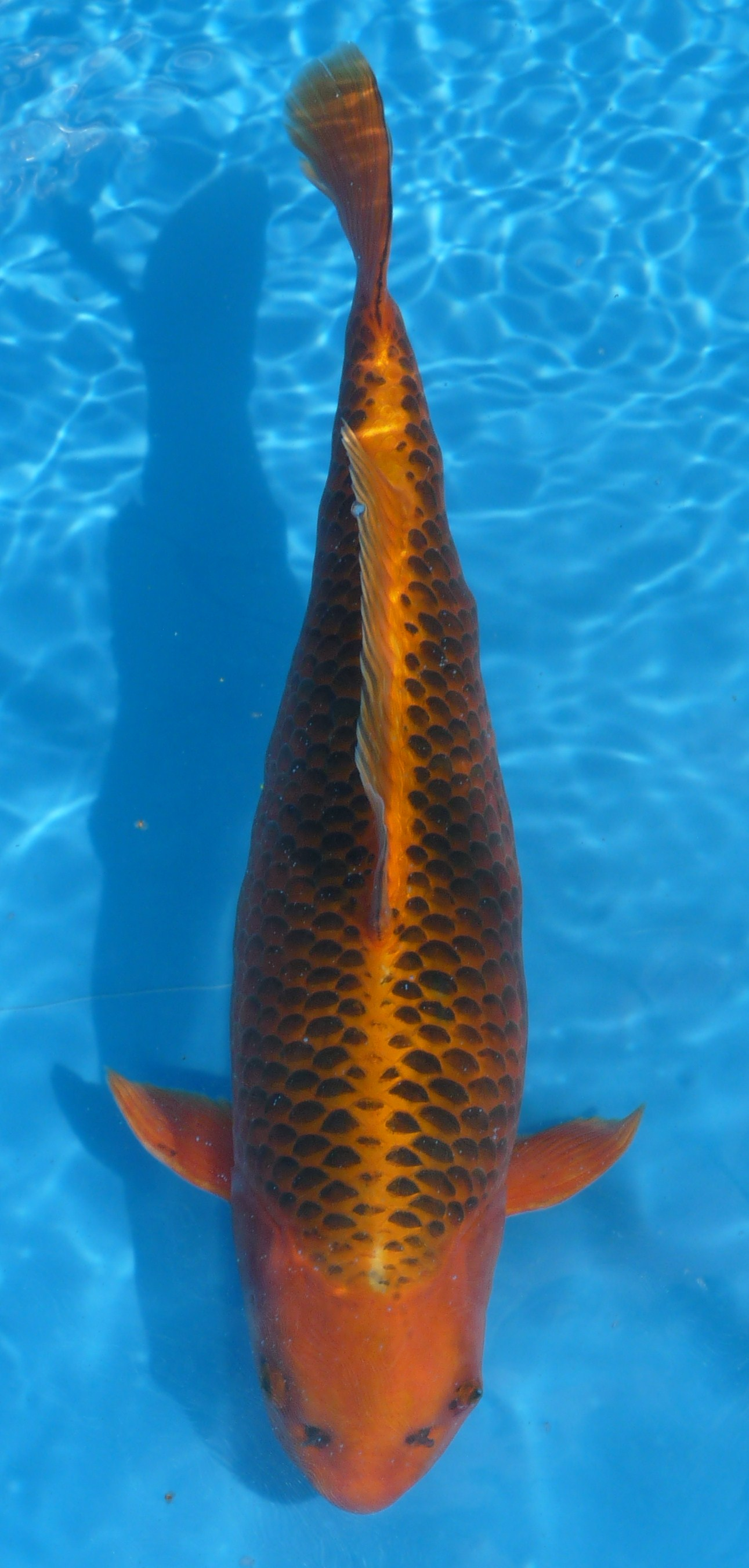 Aka Matsuba (Koi)